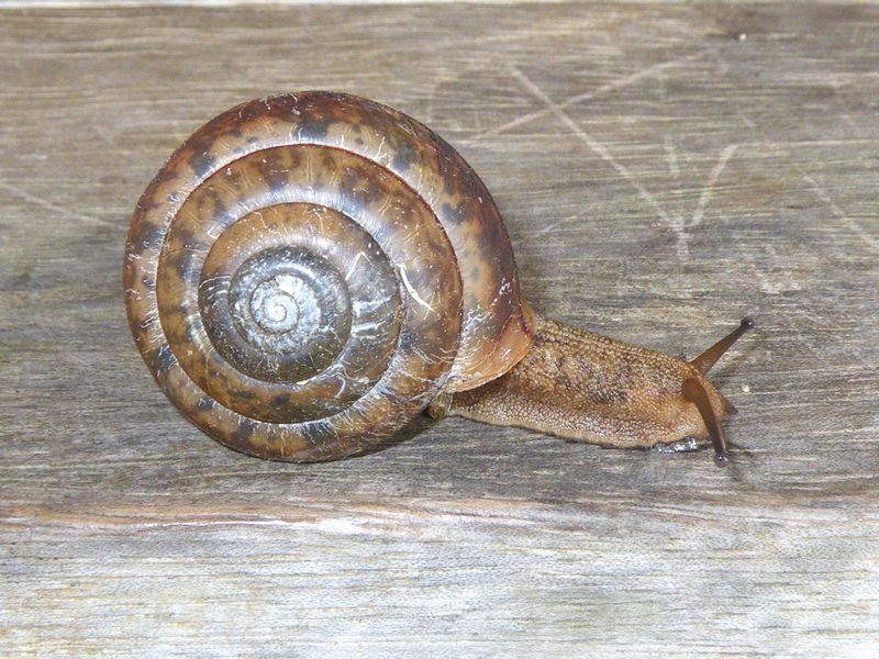 Satsuma myomphala myomphala (Martens,1865) at Nagasaki (the type locality of the species), Kyushu, Japan.